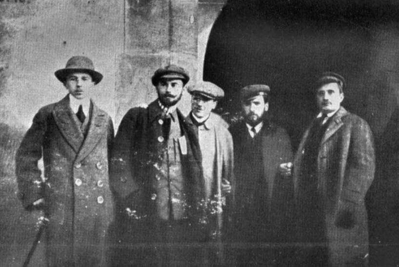 Group of people from the Union of Active Struggle from Krakow. From left: Adam Koc alias Witold, Edward Rydz alias Śmigły, Stanisław Machowicz alias Sawa, Kordian Zamorski alias Ignacy, Wilhelm Wyrwiński alias Wilk.